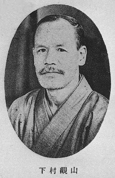 Portrait of Shimomura Kanzan (下村観山, 1873 – 1930)